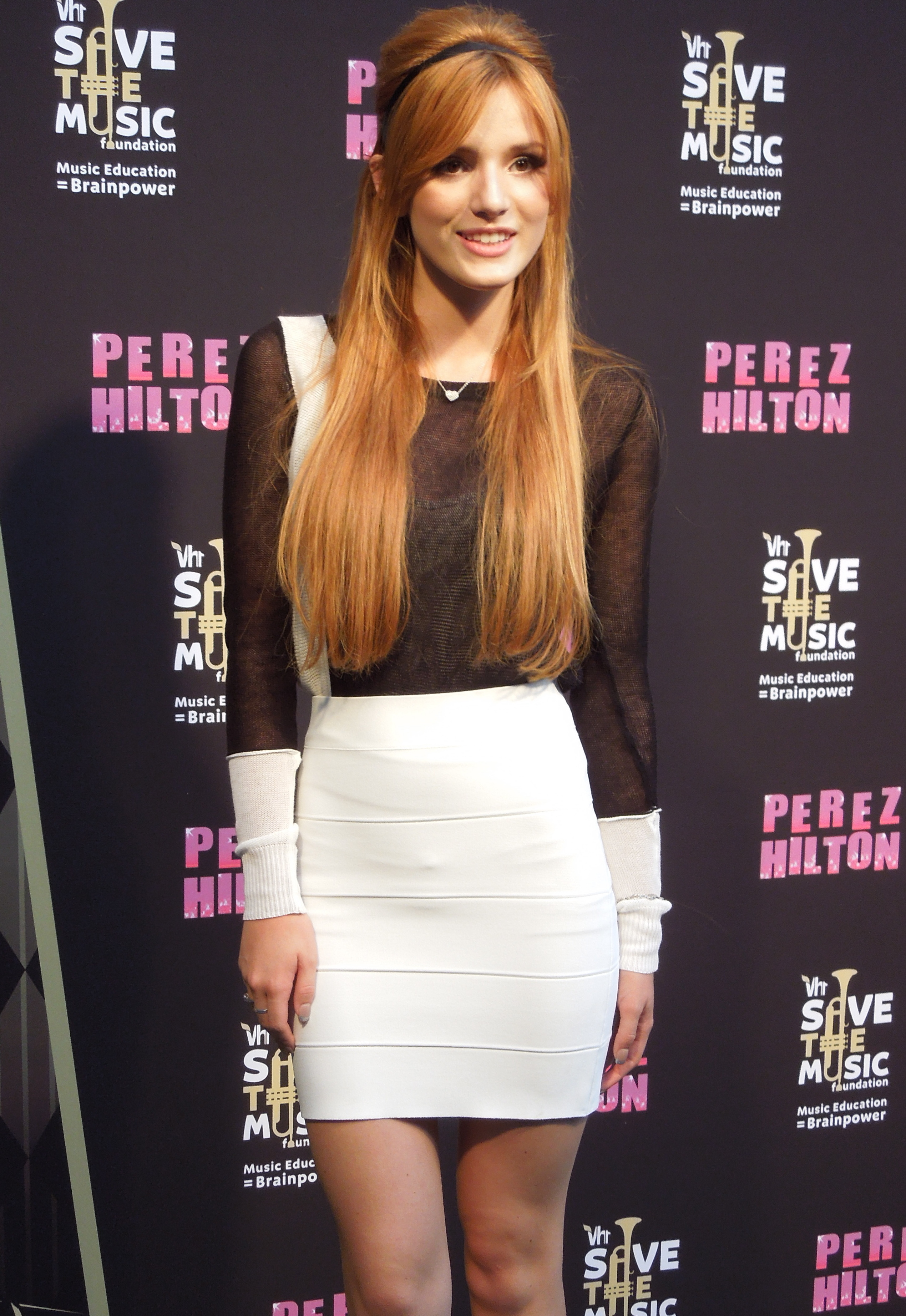 Bella Thorne at the Perez Hilton's One Night In... L.A. in the Red Carpet (September 2012).